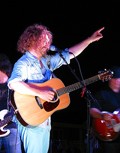 James Maddock playing as part of WBJB Songwriters on the Beach Concert Series in Belmar, NJ. Photo by LHCollins.